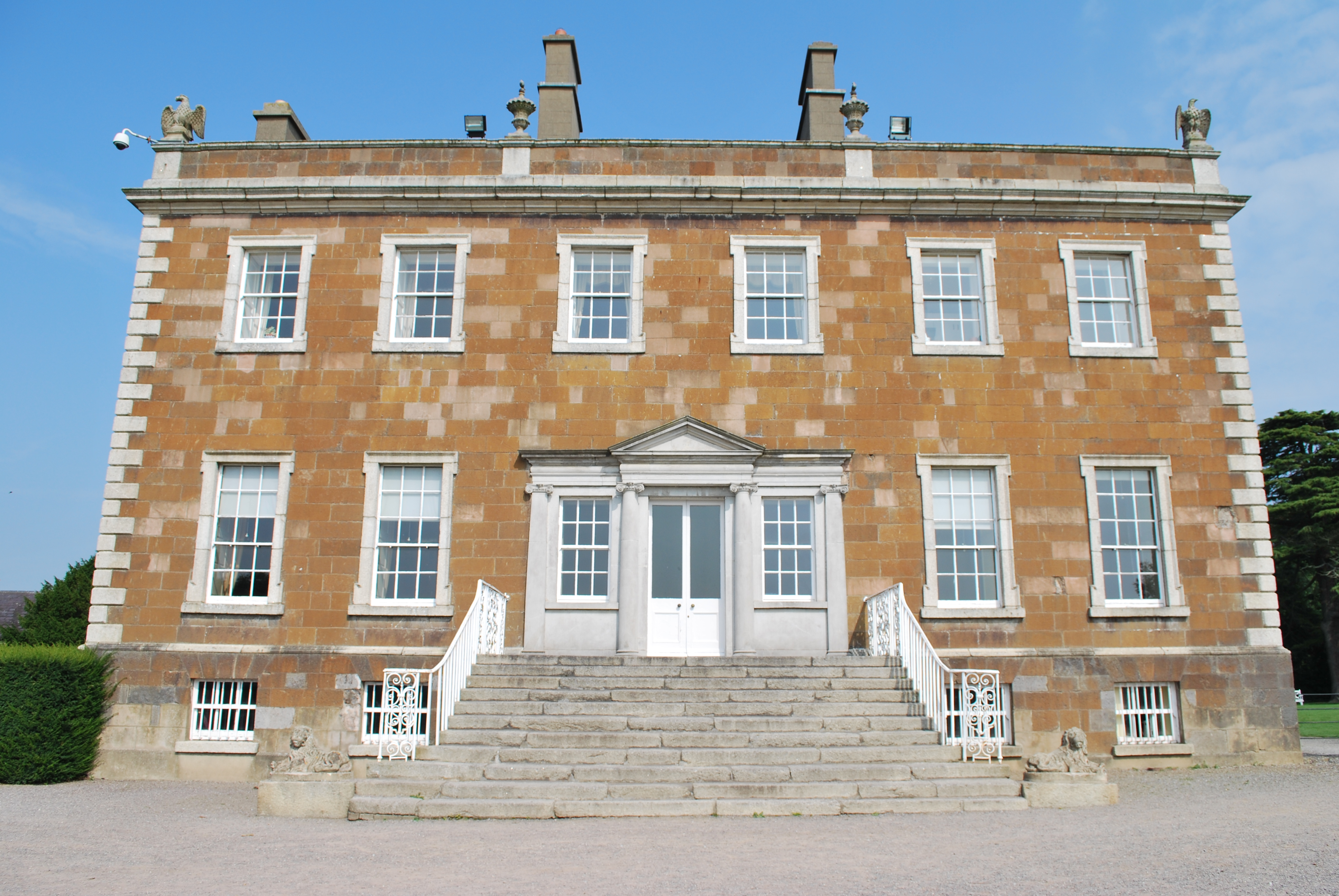 Newbridge Demense Castle (Tower House)